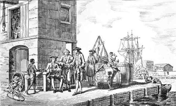 Depiction of a Tobacco Wharf in Colonial America; caption of a cartouche of an 18th-century map of the Chesapeake Bay.